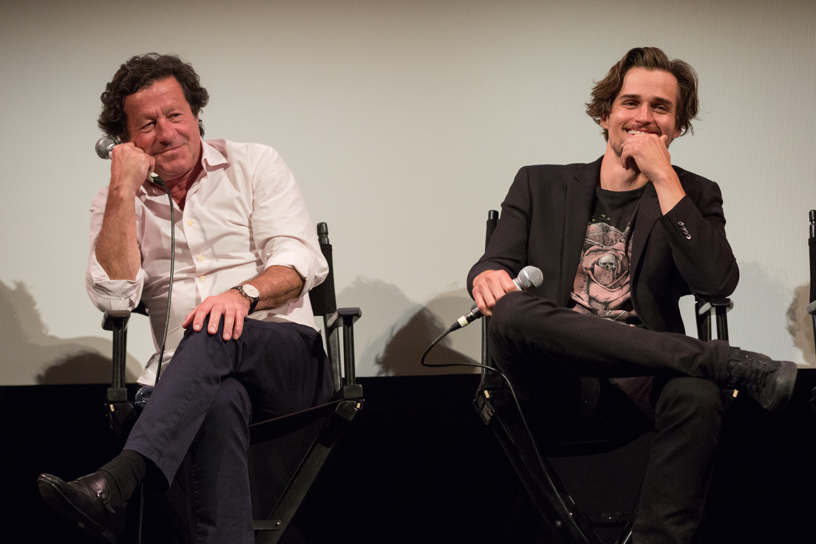 Joaquim De Almeida (left) and Jon-Michael Ecker at the ATX Television Festival presentation of the TV show "Queen of the South"